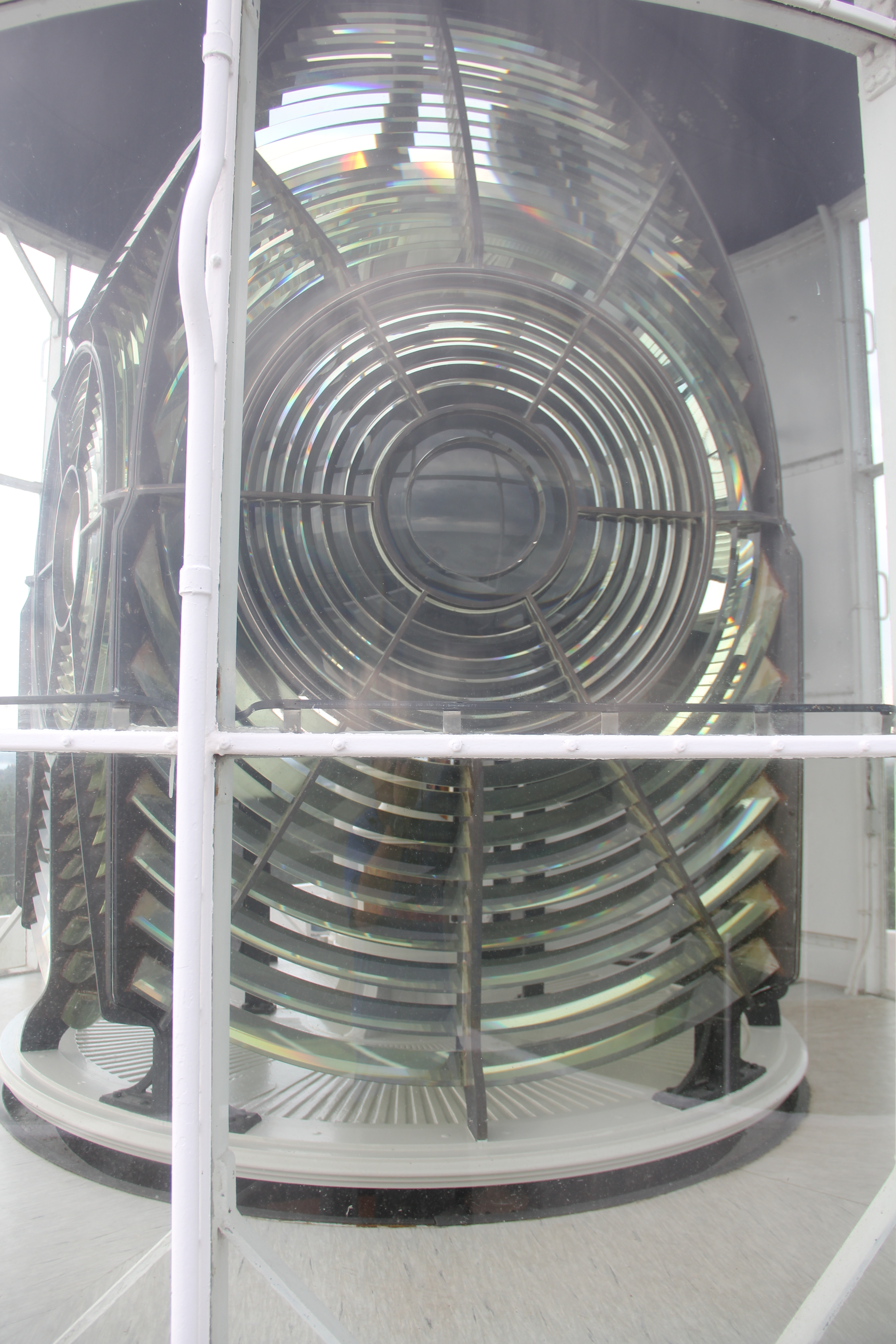 Fresnel lens i Nakkehoved western lighthouse